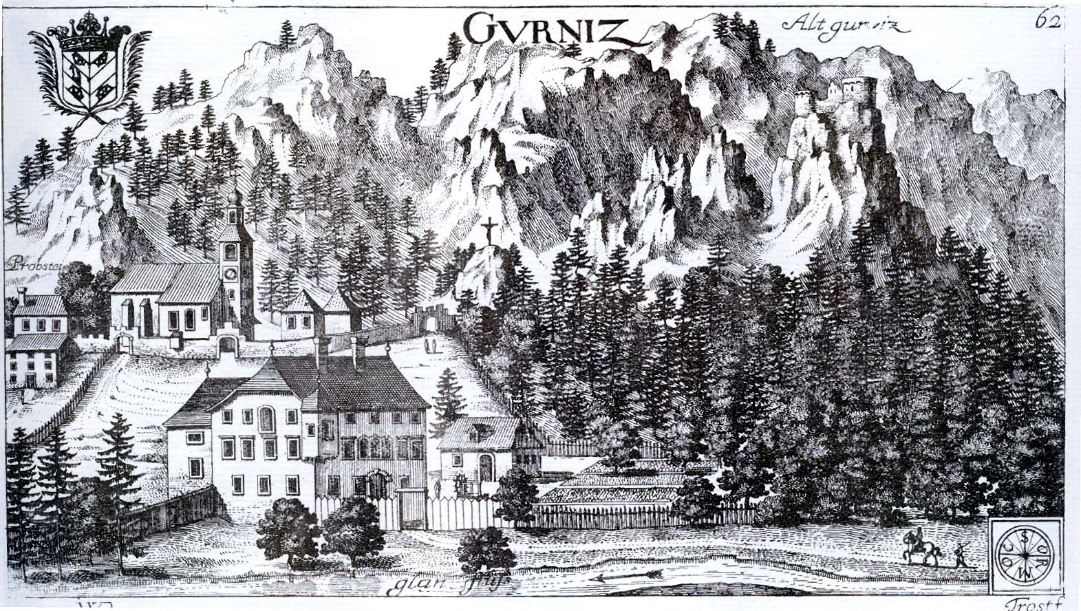 Castle of Gurnitz in the Carinthian municipality Ebenthal in Kärnten in Carinthia / Austria / European Union.